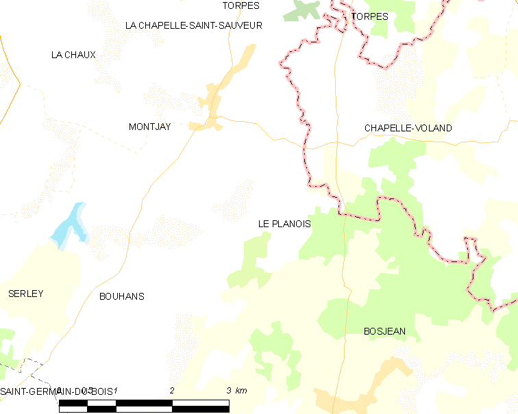 Map of French municipality